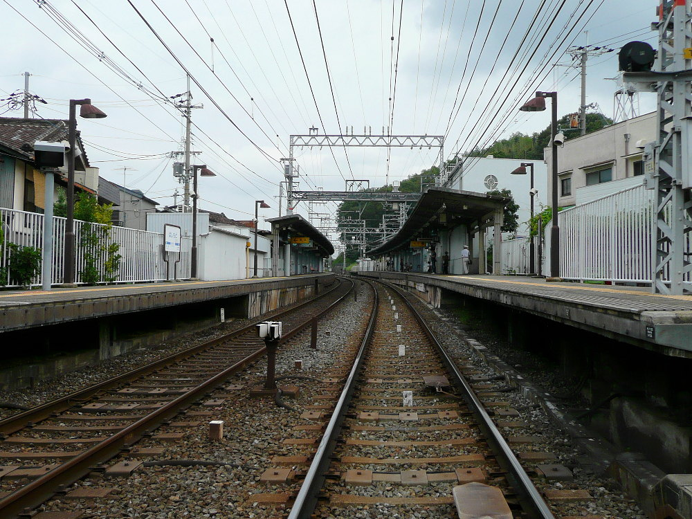 Hashimoto Station platform of Keihan Electric Railway.